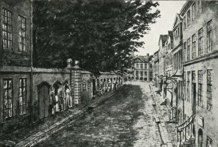 Lille Helliggejststræde, now part of Niels Hemmingsens Gade in Copenhagen. Print. The wall to the left was demolished in 1879